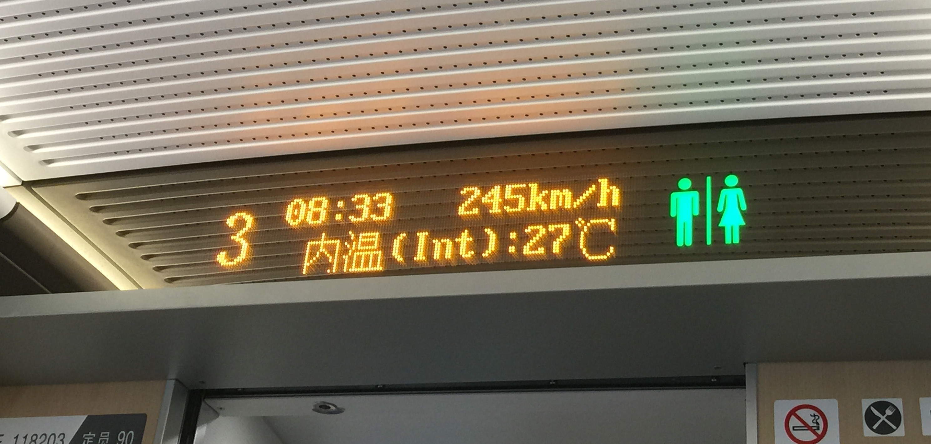 Hainan Eastern Ring High-Speed Railway train interior showing speed